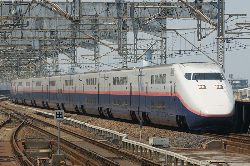 Refurbished JR East E1 series shinkansen set M4 approaching Omiya Station on a Joetsu Shinkansen service